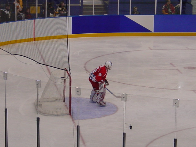 Dominik Hasek at the Winter Olympics in Salt Lake City 2002